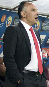 Dinamo Bucharest at 2009 Romanian Cup semifinal (CFR Cluj - Dinamo Bucuresti 2-1)